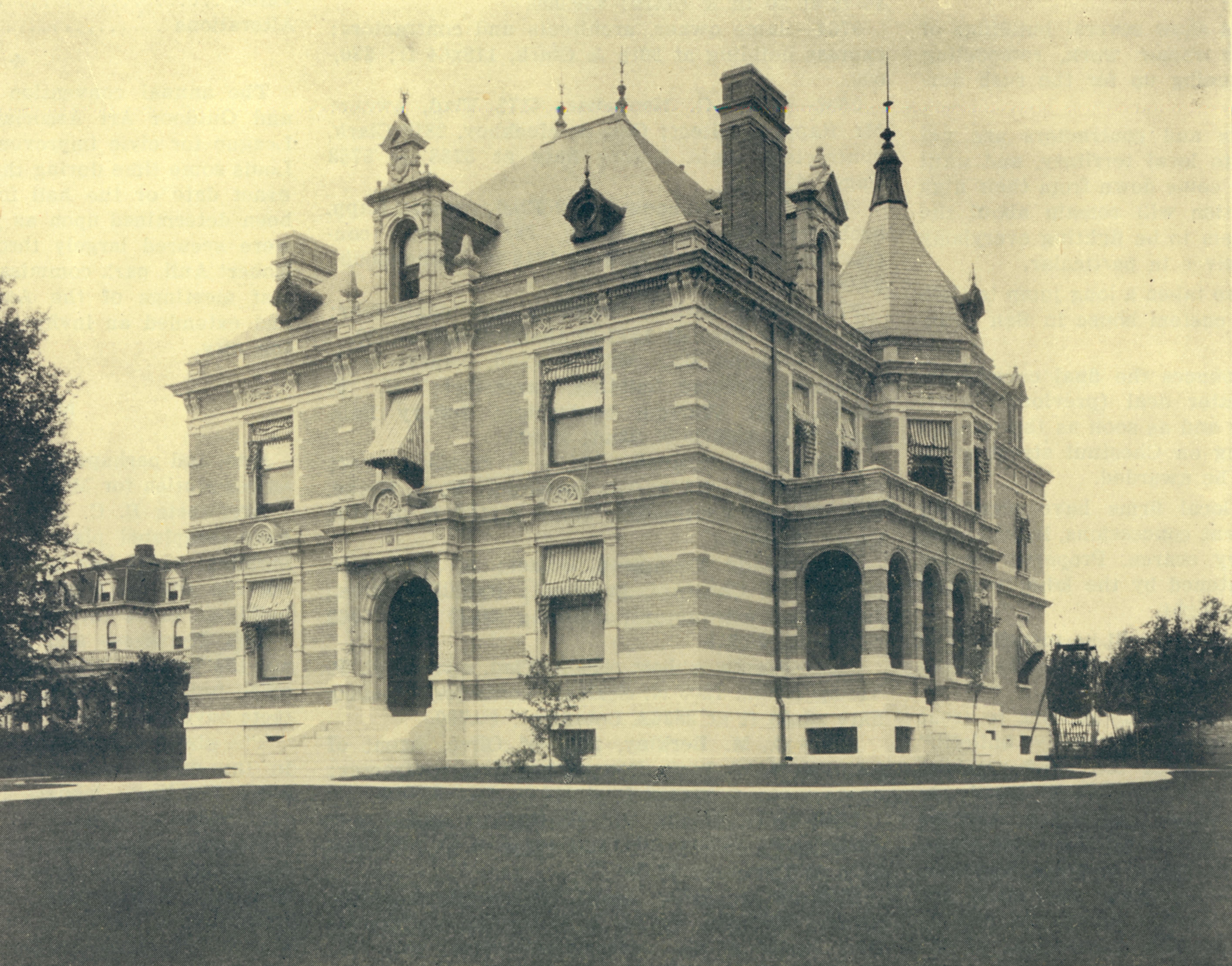 Title: Louis Brinckwirth Residence. 4511 Lindell Boulevard. Widmann, Walsh and Boisselier, Architects.